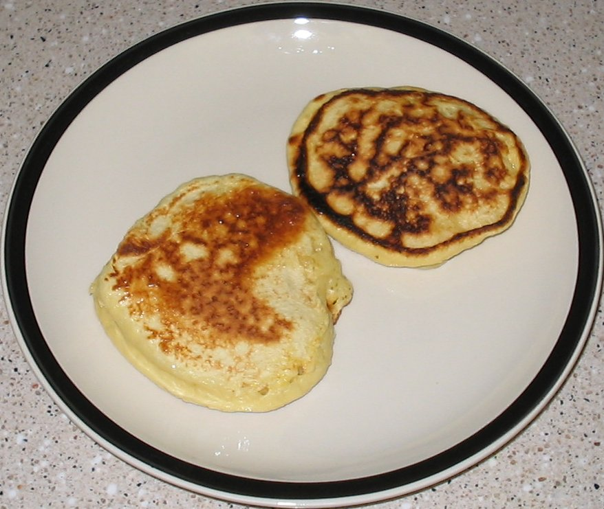 Two pancakes on a plate. David Benbennick photographed them on Saturday, January 8, 2005. I made the pancakes myself; the recipe was 2 cups flour, 1 teaspoon baking powder, 3 eggs, some applesauce, and a small amount of water.